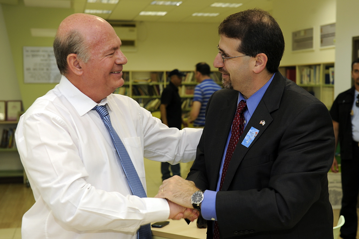 Ambassador Shapiro attended memorial (Yom Hazikaron) ceremonies at the Yigal Alon Comprehensive High School (Amal Network) and ORT Lilienthal High School in the city of Ramla. The ceremonies commemorated fallen Israeli soldiers who have lost their lives defending the State of Israel. Ambassador Shapiro gave greetings to bereaved parents, school administration, graduates who are currently serving in the IDF and hundreds of students. The Ambassador affirmed that Israel’s freedom has come at a great cost and it is due to these soldiers that Israel remains a free and democratic state - “their sacrifice leaves a hole in the hearts of the entire nation of Israel”. The Ambassador also stated that "Allies stand by each other in good times and in bad. Tonight we will join you in celebrating Israel's 64th Independence Day. But today when Israel remembers its fallen heroes, America joins you in your grief and remembers with you." The ceremonies were also attended by the Mayor of Ramla Yoel Lavi.